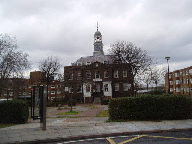 Clocktower Community Centre, Antelope Road, Woolwich, London SE18. Woolwich Borough Council maintain this centre which tries to be of service to the whole of the multi-ethnic community that live in the Borough. The building,which was originally known as the Clockhouse, dates from 1784, when it was built as the house and office of the Dockyard Admiral-Superintendant.